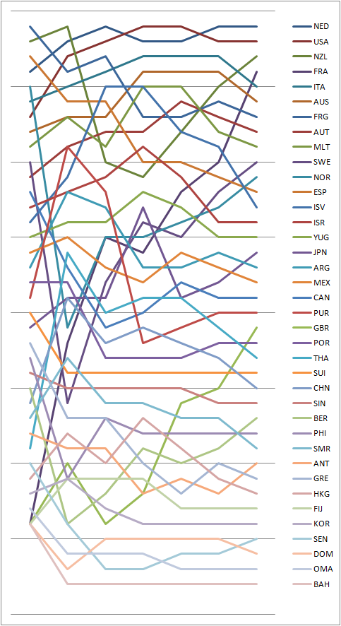 1984 WINDGLIDER Daily standings during the Olympic sailing event